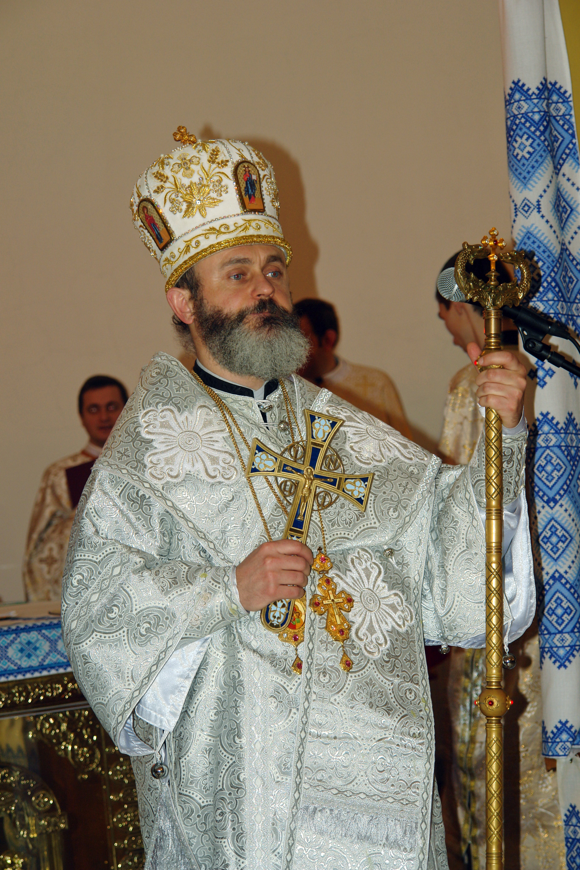 Bishop Josaphat Hovera